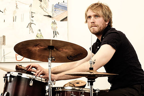 Jon Fält in Aarhus, Denmark 2016